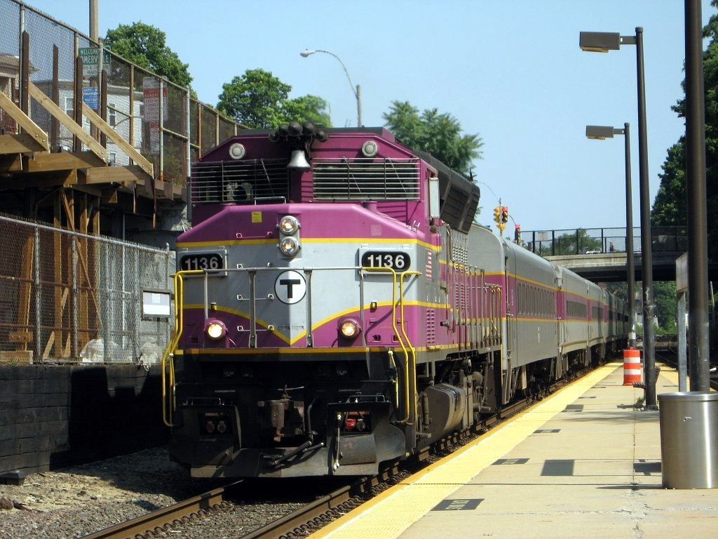 Massachusetts Bay Transportation Authority GP40MC 1136 (ex-Canadian National 9599) entering the Porter Square Station